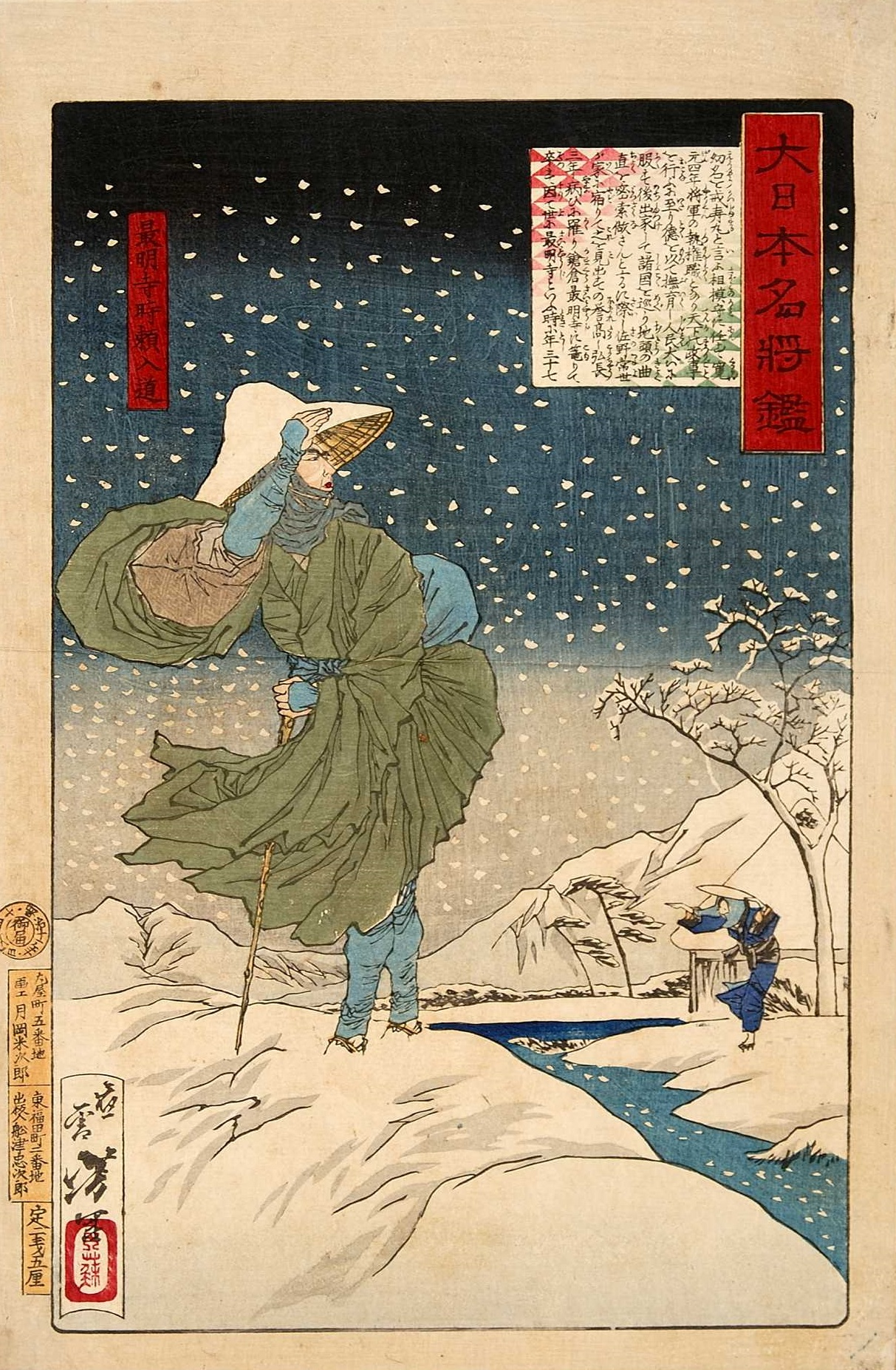 Lay Priest Tokiyori of Saimyō-ji Temple (Saimyō-ji Tokiyori nyūdō), from the series Mirror of Famous Generals of Great Japan (Dai nihon meishō kagami). Woodblock print 時頼の鉢木伝説の一場面